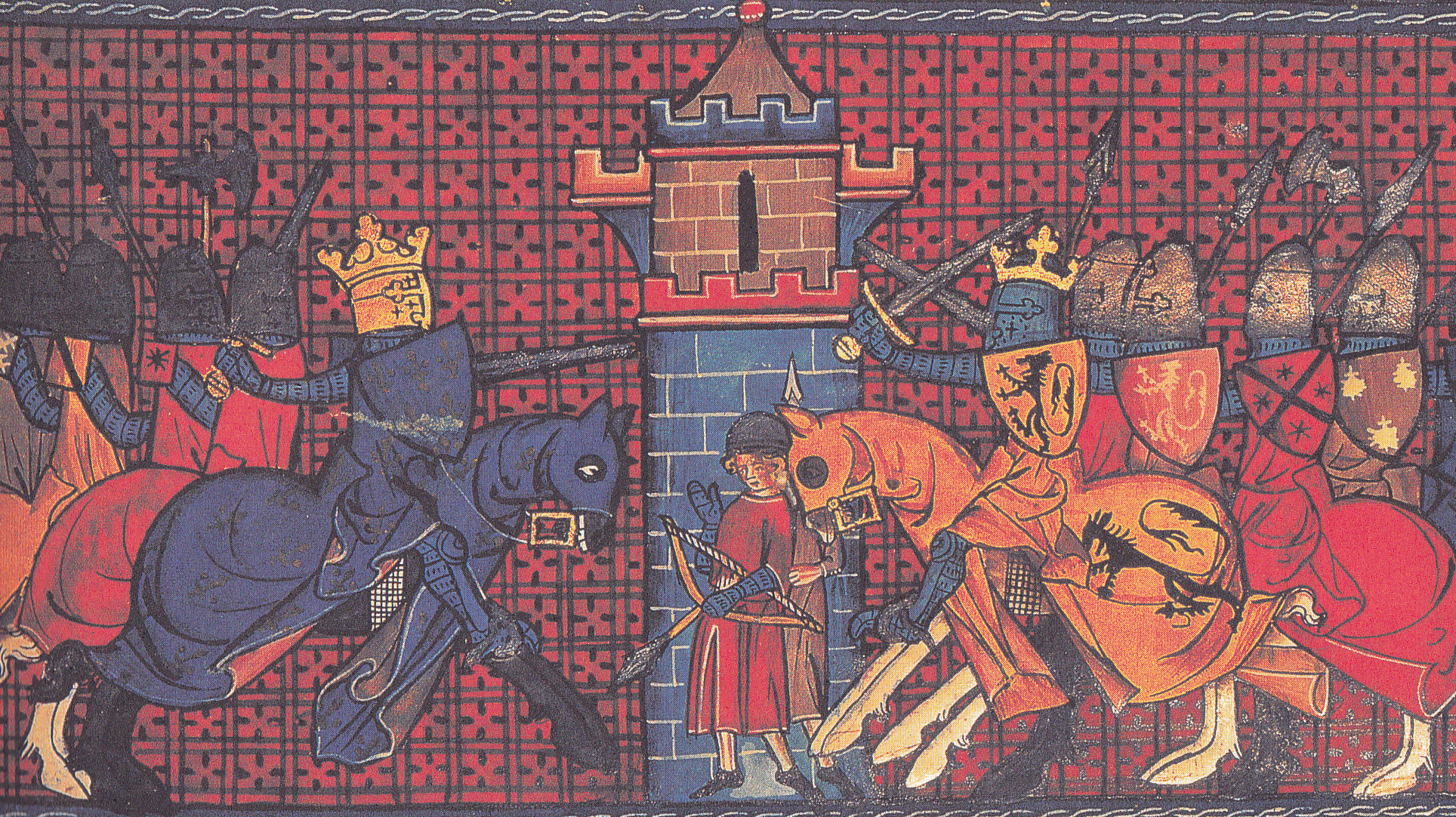 The Battle of Gisors, 1198, between Philip II August (left) and Richard Lionheart (right).